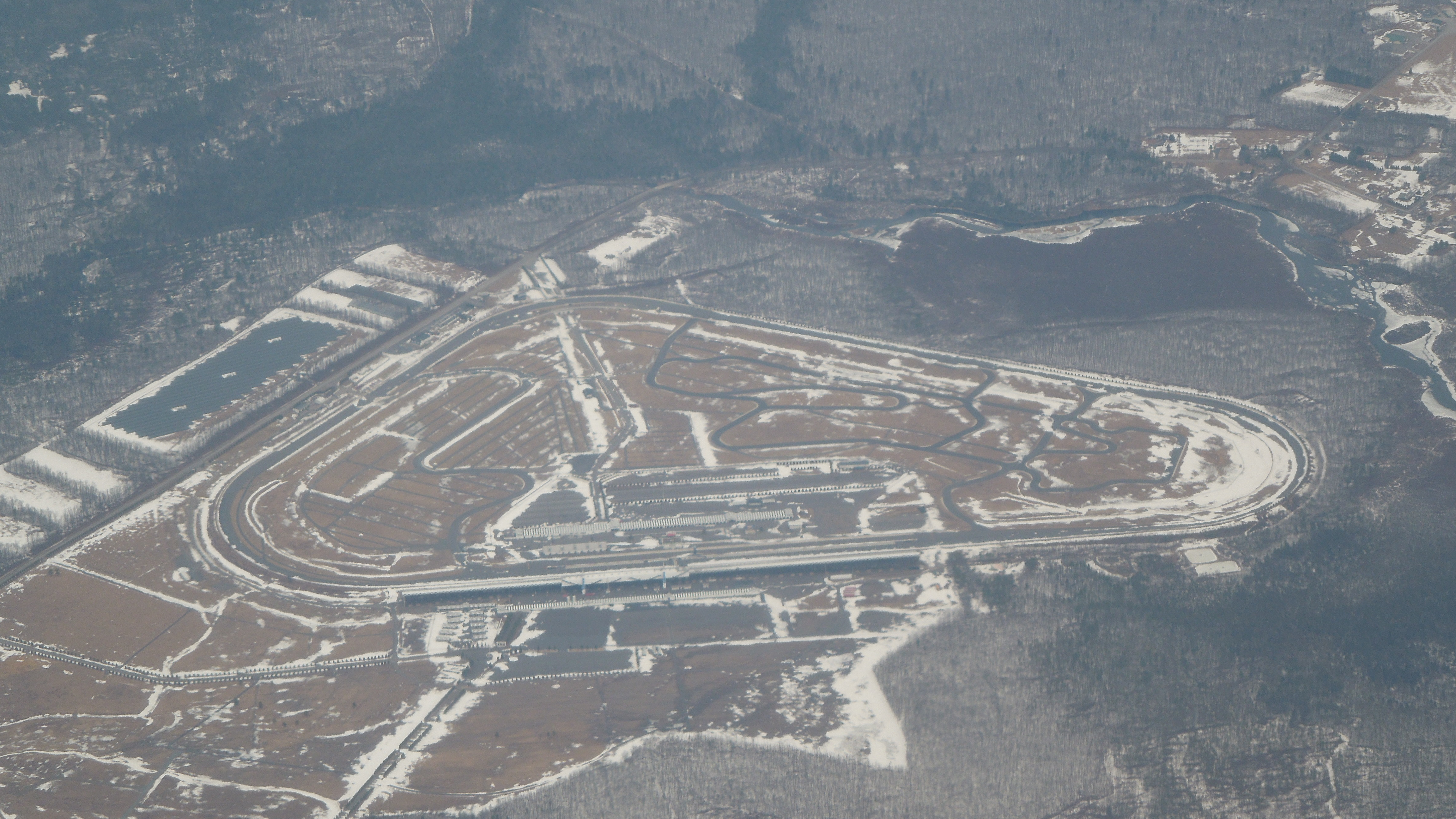 A flyover view of Pocono Raceway. Taken March 27, 2014 from a United Airlines flight inbound to Newark Liberty International Airport.